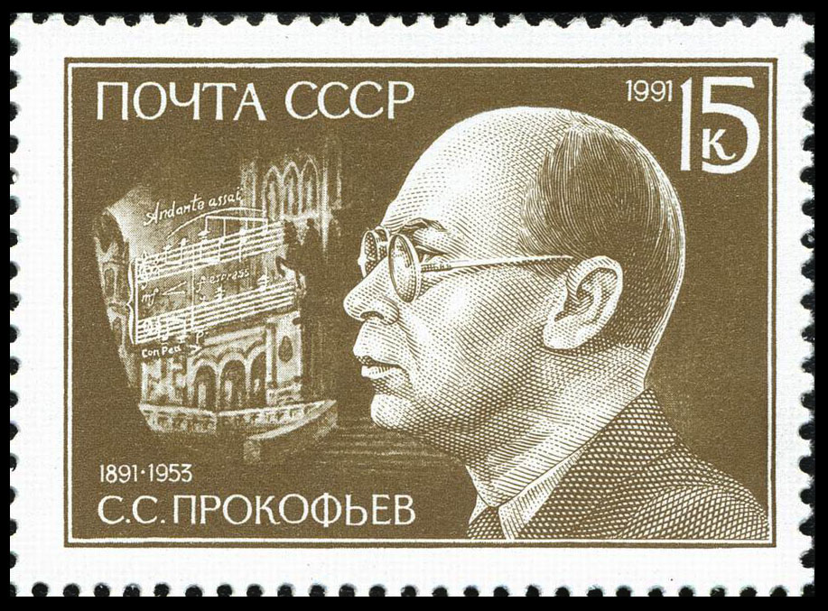 A USSR stamp, Birth Centenary of Sergei Prokofiev. Date of issue: 23rd April 1991. Art design: B. Ilyukhin. Michel catalogue number: 6191. 15 K. bistre-brown. Portrait of composer Sergei Prokofiev, 1891-1953.